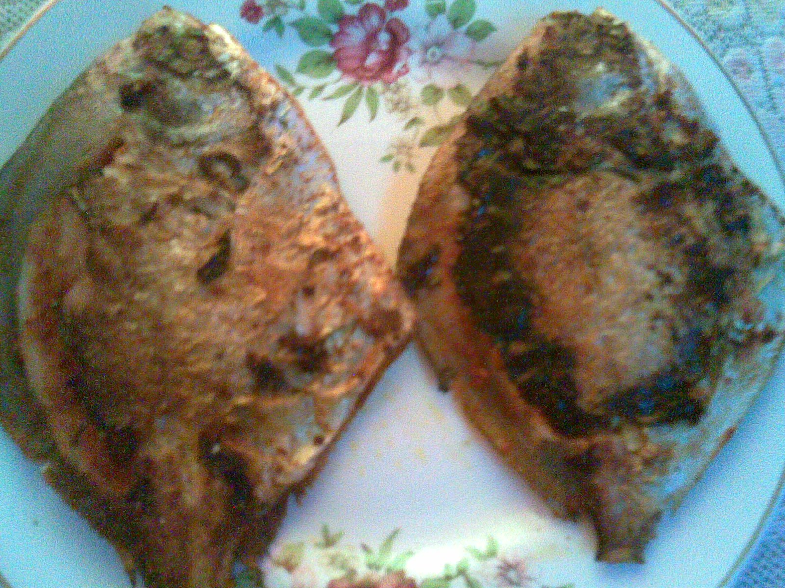 Pompret fish fried in Goan Catholic style.